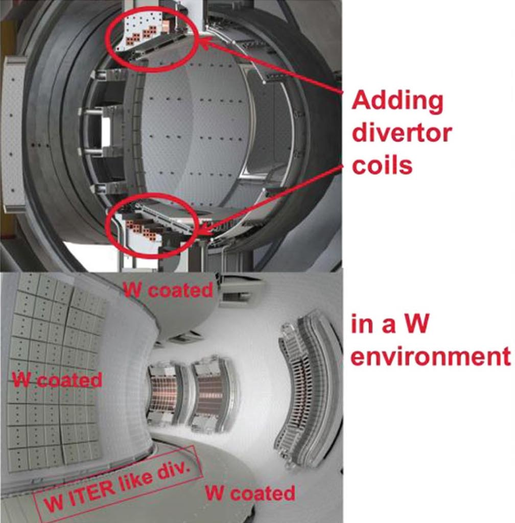 CAD views of the WEST (Tungsten Environment in Steady-state Tokamak, formerly Tore Supra) Tokamak vacuum vessel.